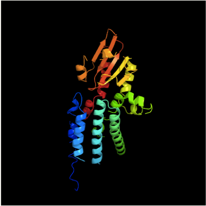 Predicted C12orf66 Protein Structure